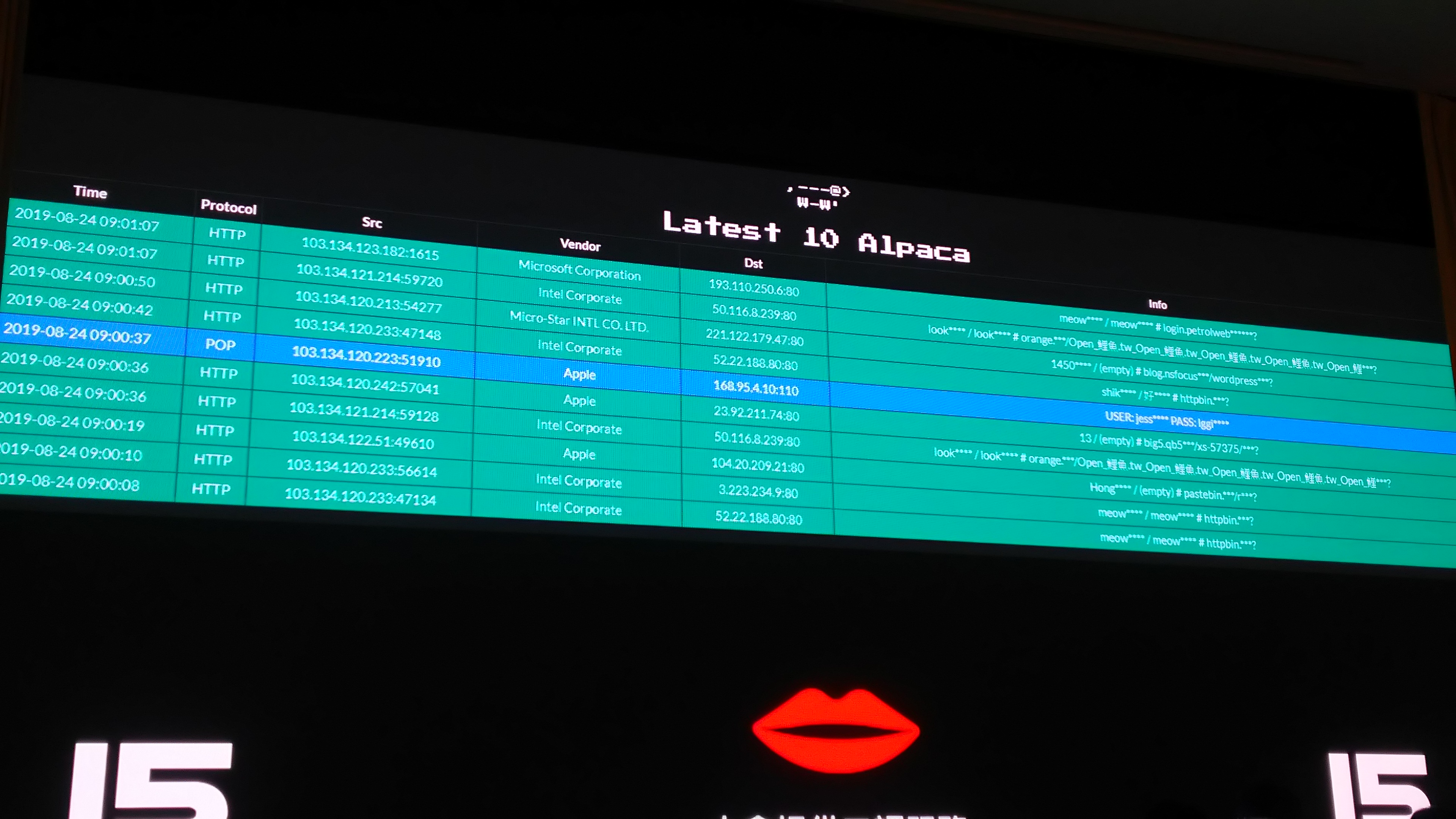 Title：The sheep wall build in HITCON CMT 2019 Date：2019.08.23~08.24 Place：Academia Sinica, Taipei City, Taiwan